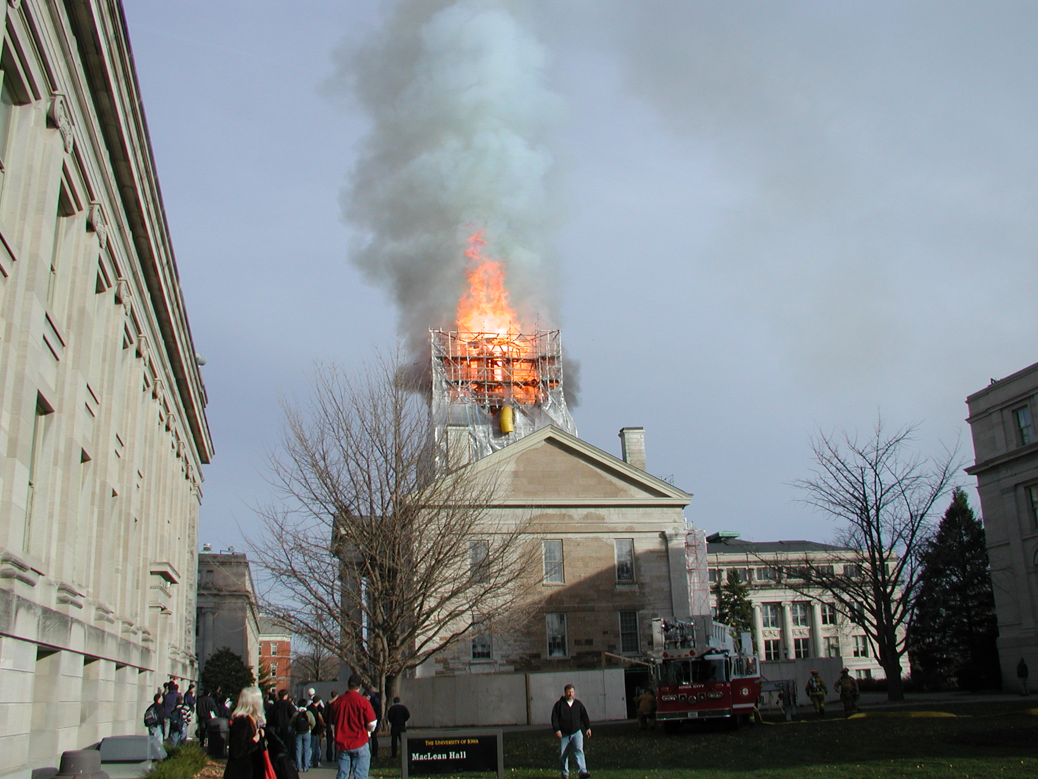 Photo of the November 20, 2001, fire at the Iowa Old Capitol Building on the Pentacrest in Iowa City, IA. Taken from the South, outside MacLean Hall, looking north towards the Old Capitol.